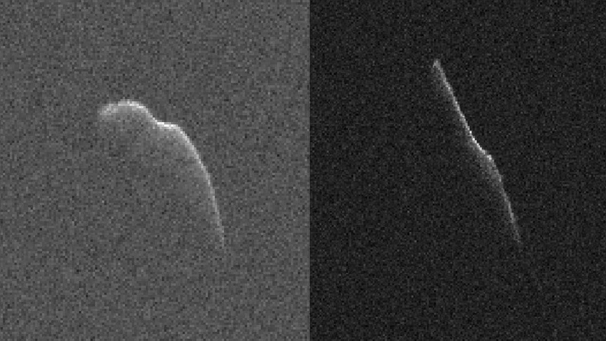 These images of 2003 SD220 3,600 feet (1,100 meters) long were taken on Dec. 17 (left) and Dec. 22 by scientists using NASA's giant Deep Space Network antenna at Goldstone, California.